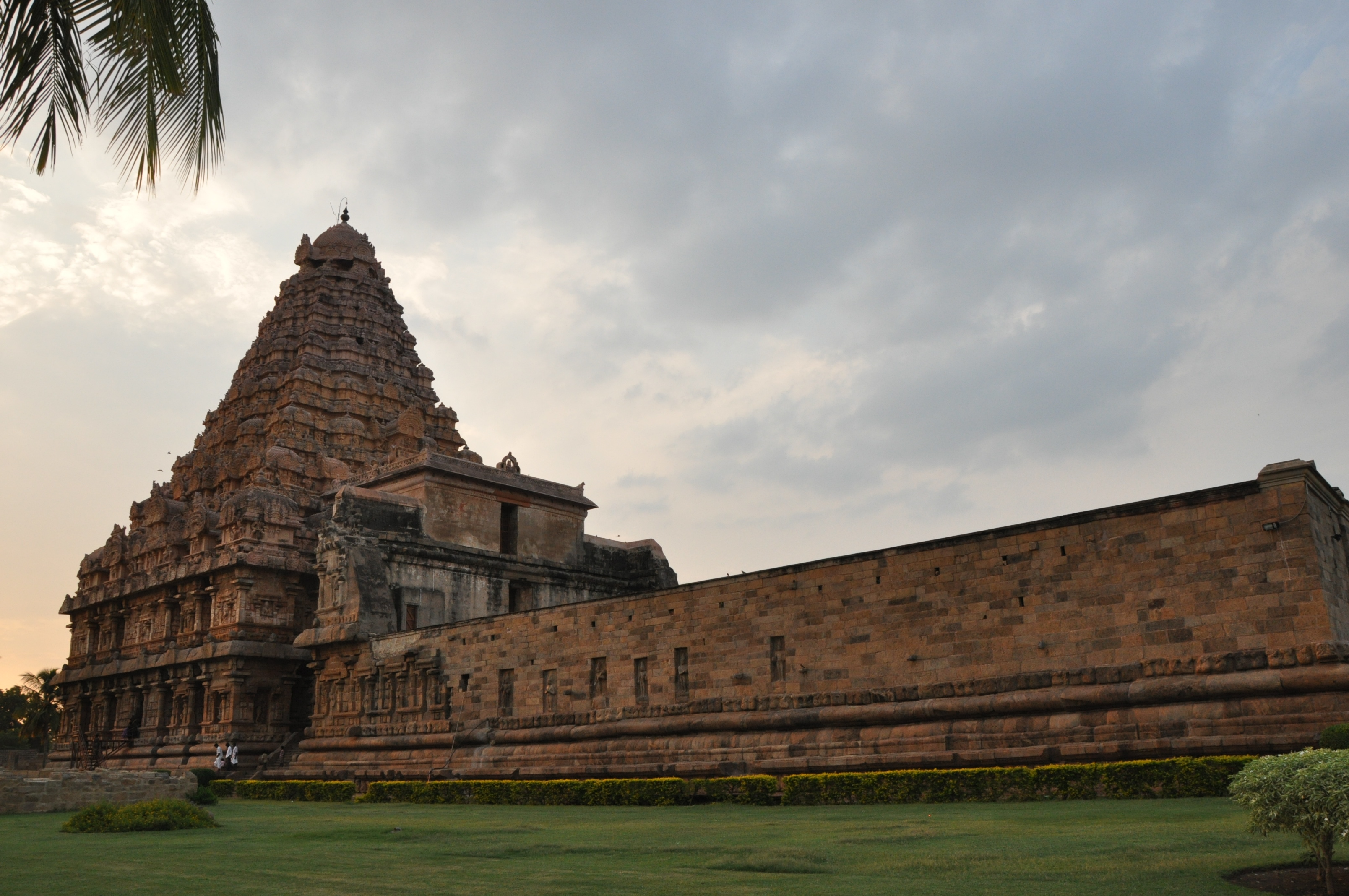 "A beauty of Brihadisvara Temple of Gangaikonda Cholapuram" .Location: Gangaikonda Cholapuram, Near Jeyankondam, Ariyalur District, Tamil Nadu, India.